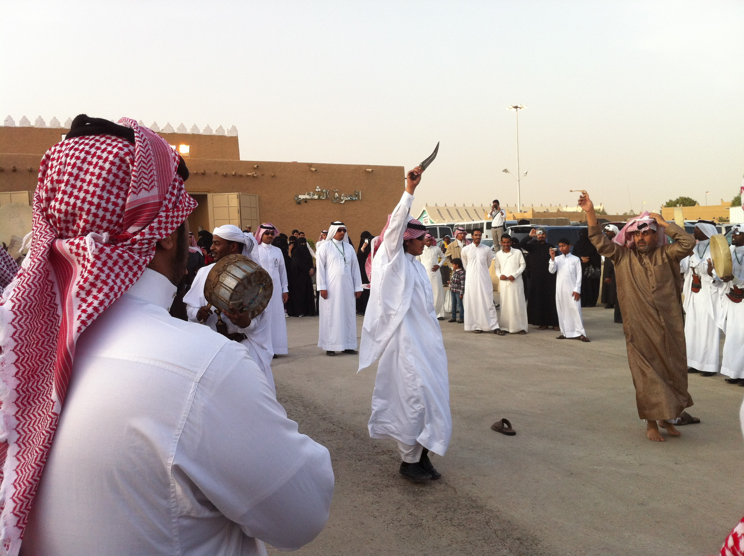 'Asir Province's dance in Jenadriyah 27